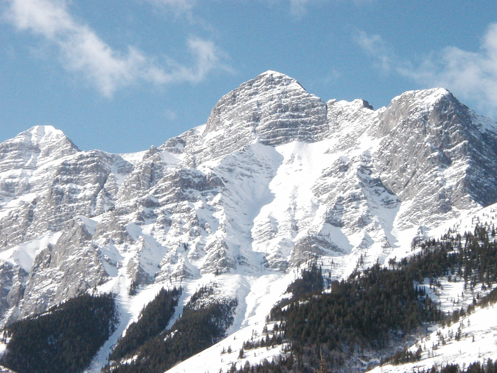 Mountain view in Kananaskis (this mountain is directly across the valley from Nakiska).